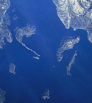 Tilevoides, island in Ionio, Greece